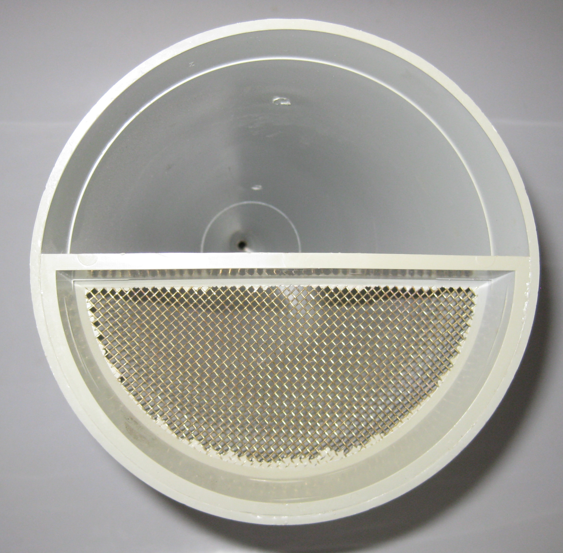 Marsh Funnel Viscometer model 201 manufactured by the Fann Instrument Company. Plastic with brass flow tube and mesh. Top view showing the mesh through which drilling fluid is poured to retain particles which would not pass through the orifice, which can also be seen.